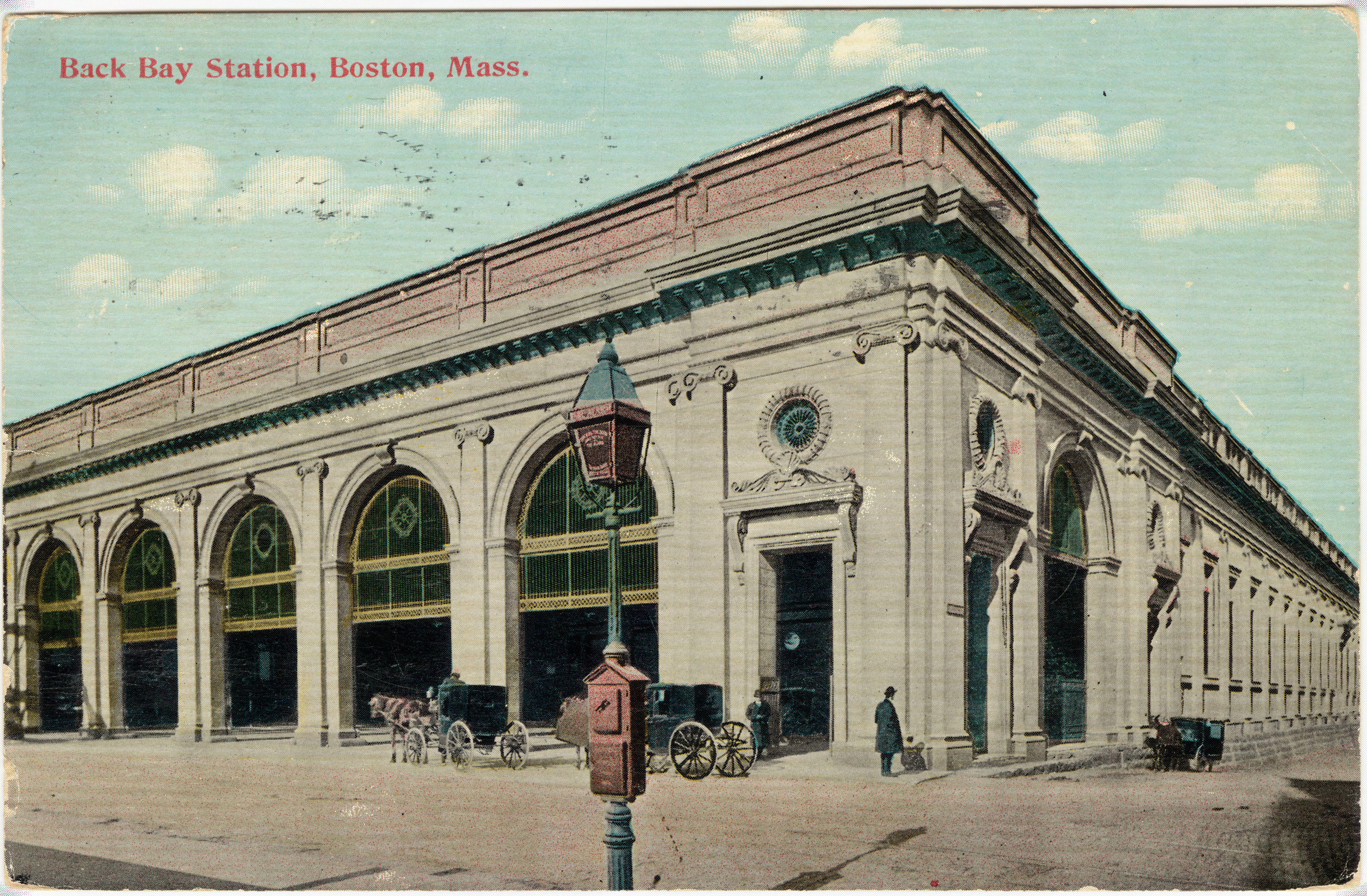 A postcard view of the original 1899-built Back Bay station circa 1907-1915